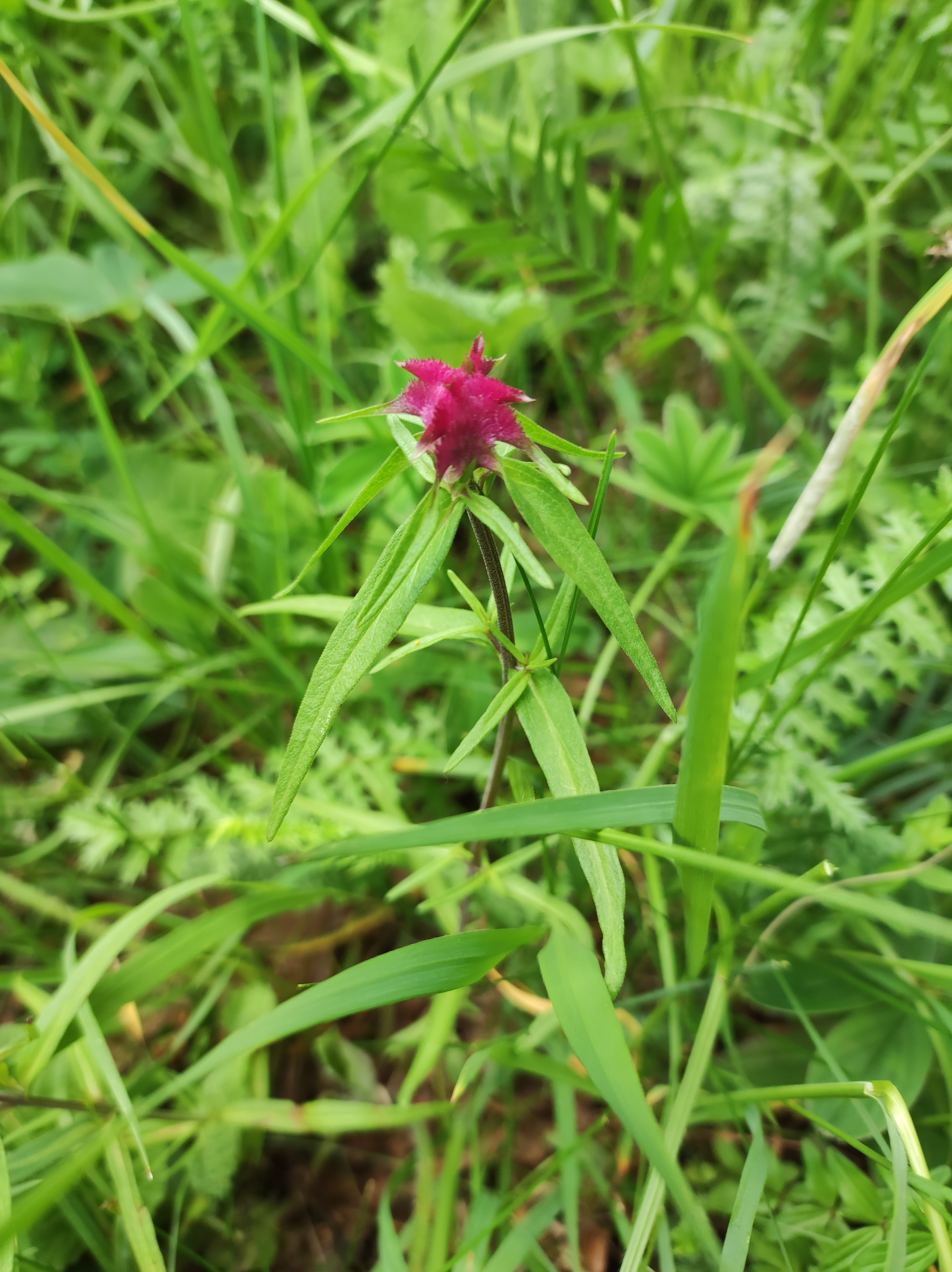 National nature reserve Čertoryje, Czech Republic.